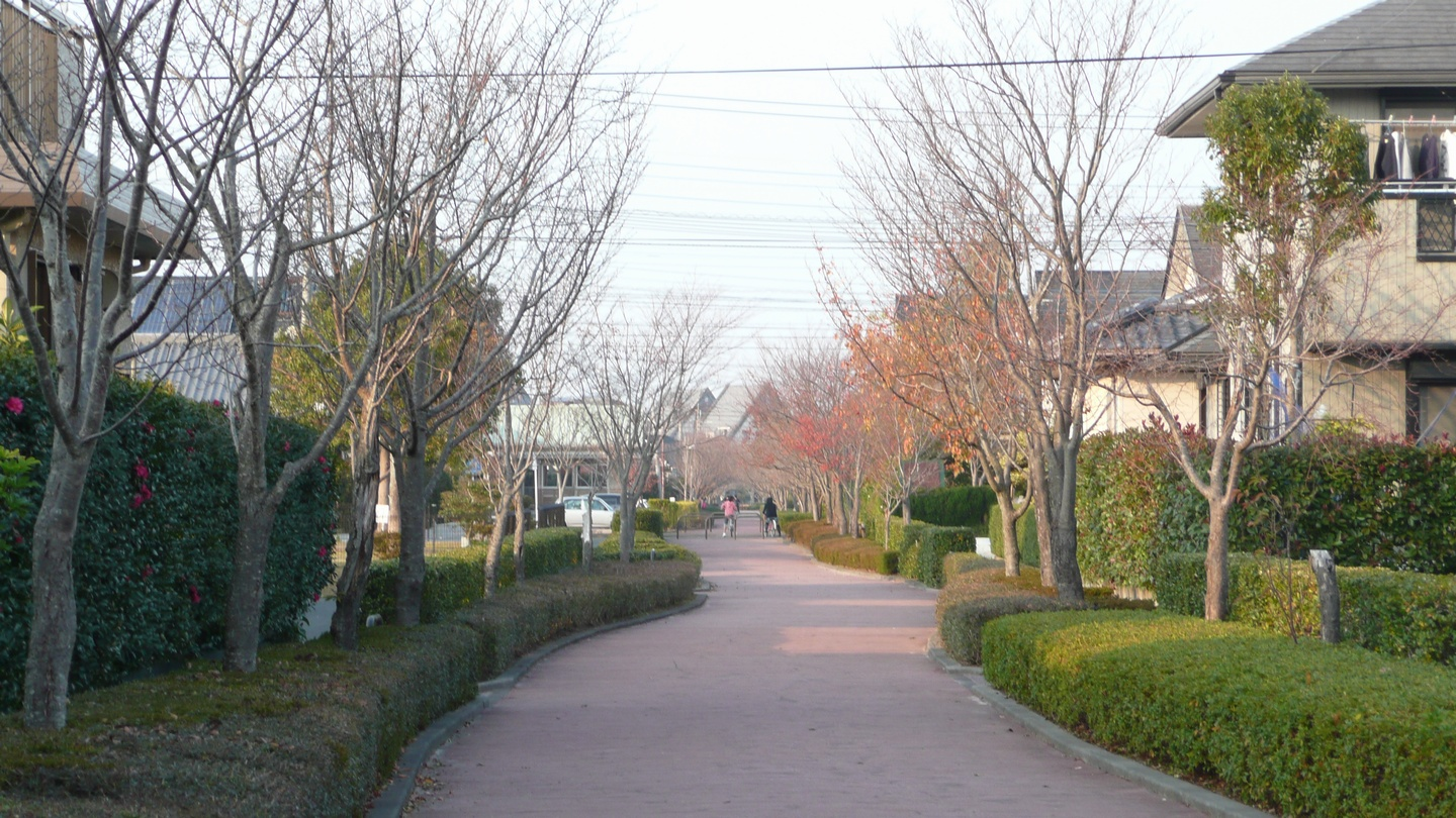 Miyazaki University Town - Sidewalk